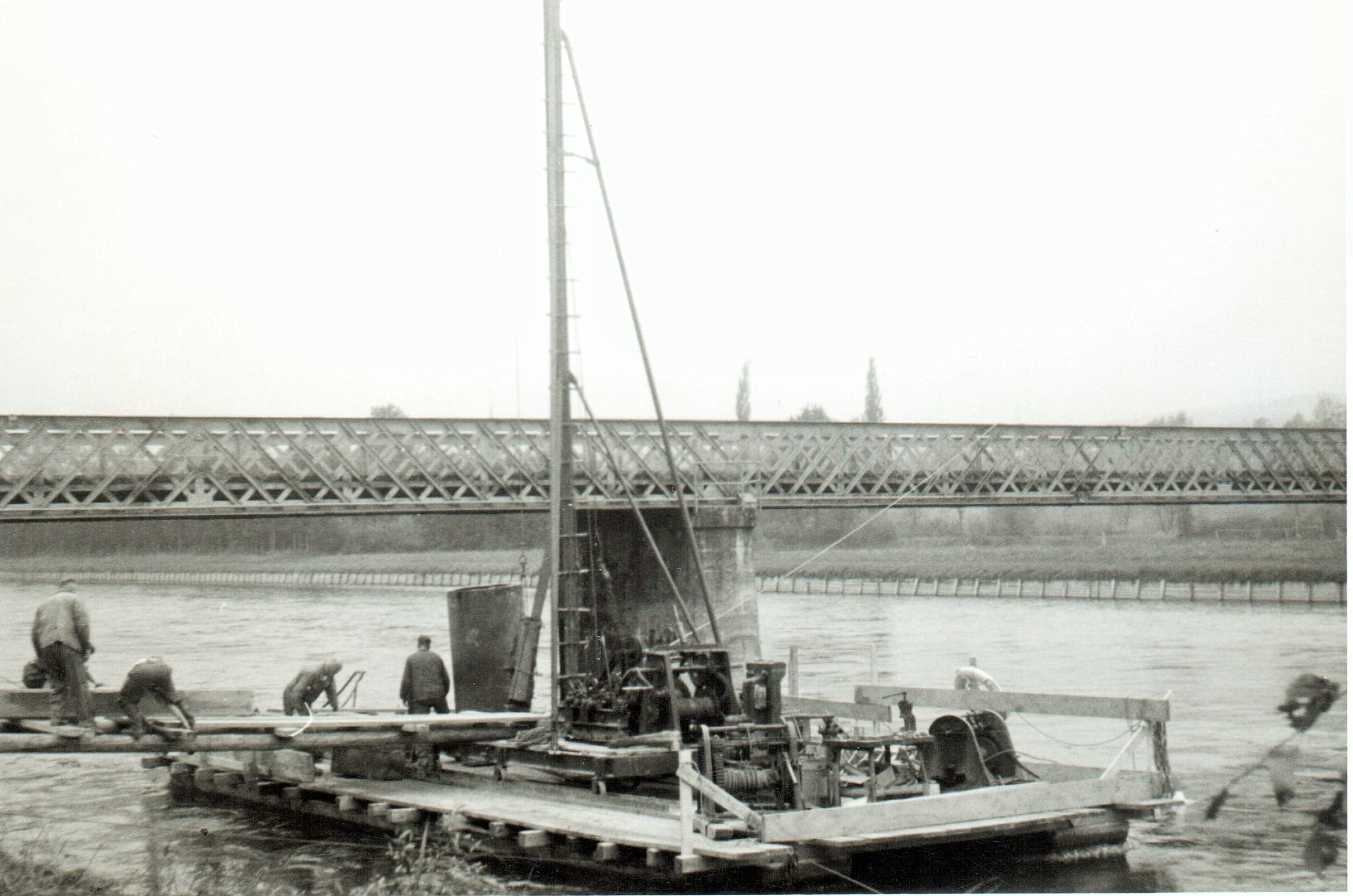 old bridge in Ottenbach ZH, Switzerland self-made 1955, family archive